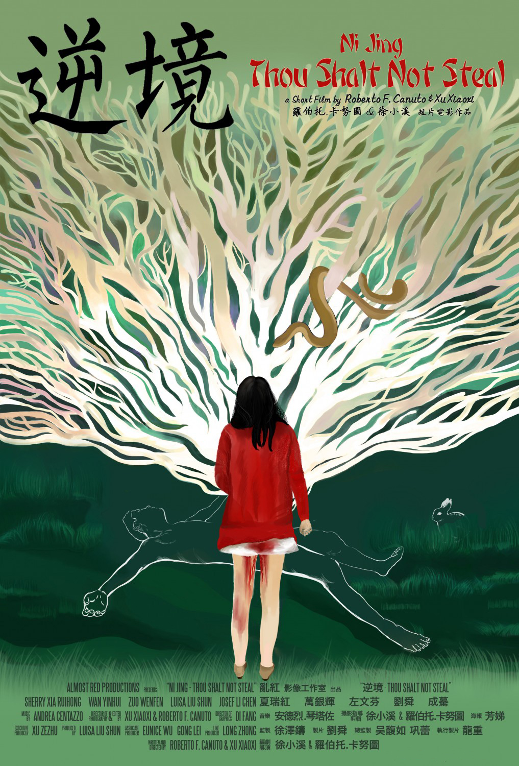 Ni Jing Thou Shalt Not Steal Poster International (dir. Roberto F. Canuto & Xu Xiaoxi)